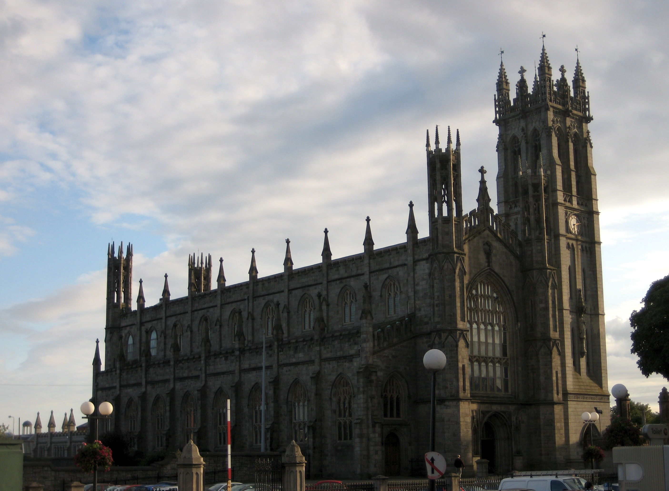 St. Patrick´s Cathedral in Dundalk, Co. Louth, Ireland